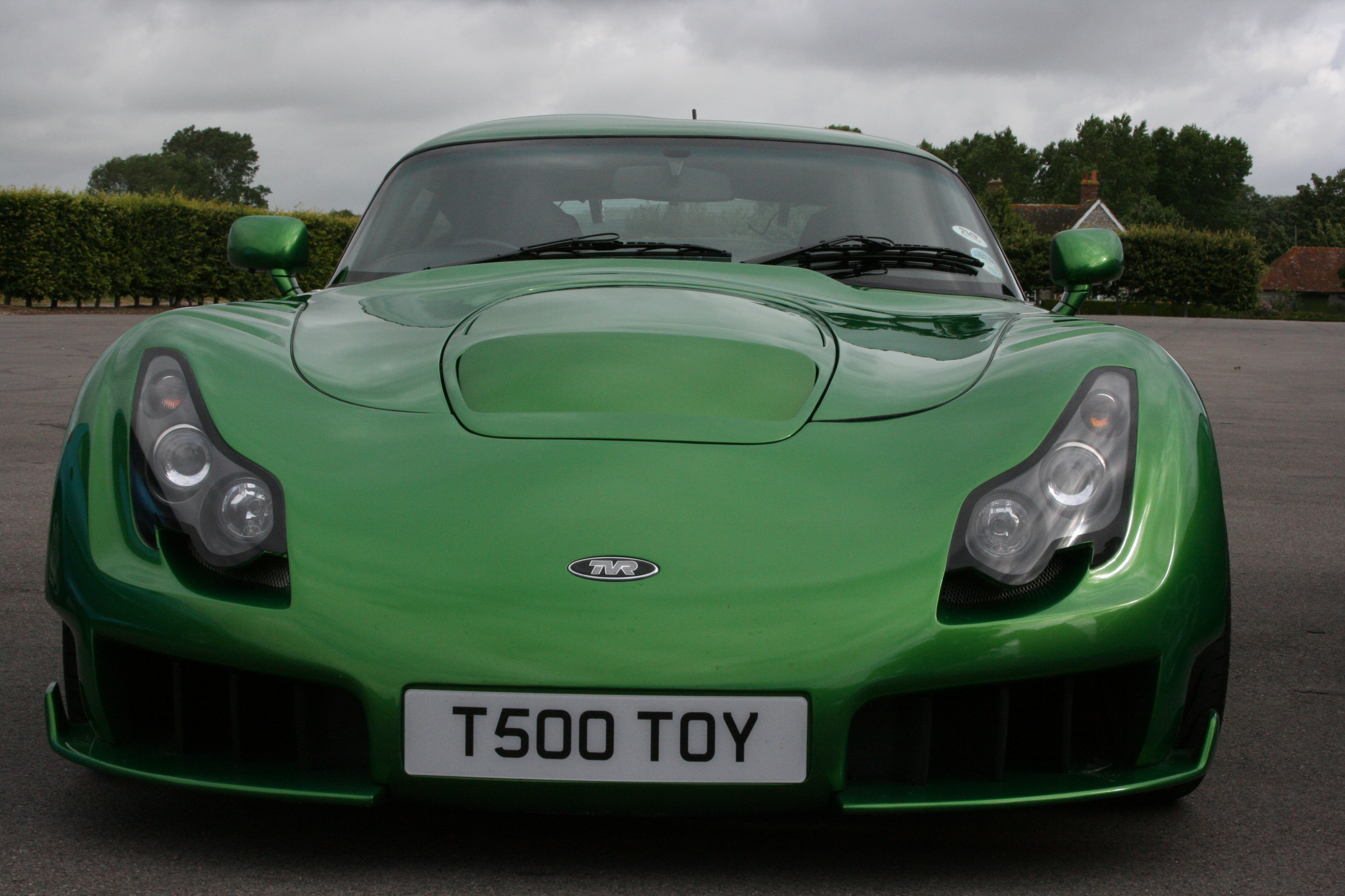 Not an open top car, so banished to the car park for this Breakfast Club meet.